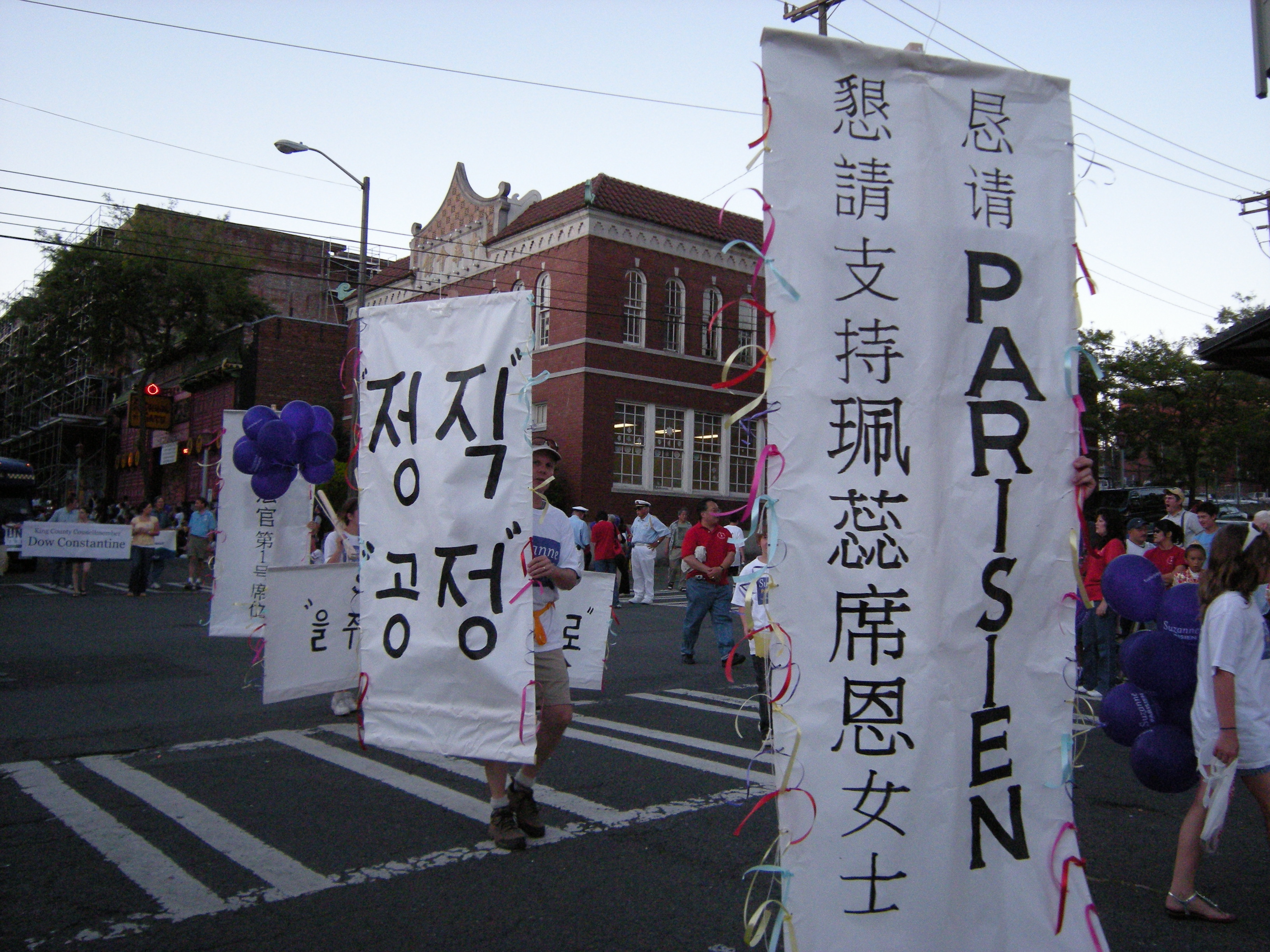 Chinese-language signs promoting a campaign for a judgeship, 2008 Chinatown Seafair Parade, Seattle, Washington.